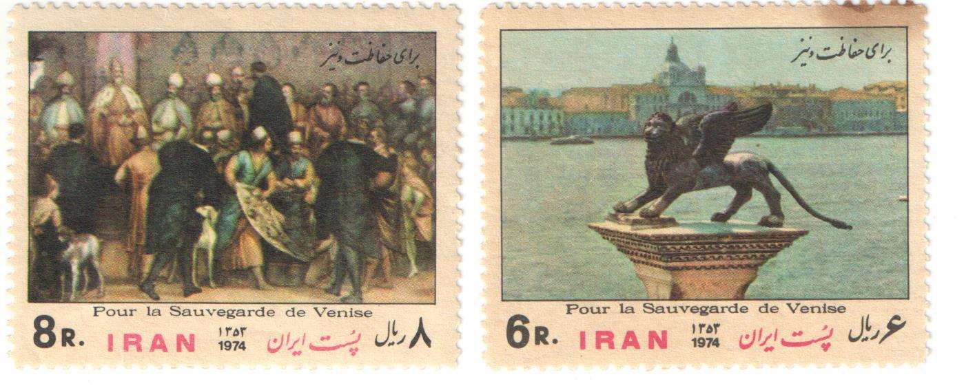 1974 "Pour la Sauvegarde de Venise" stamp of Iran